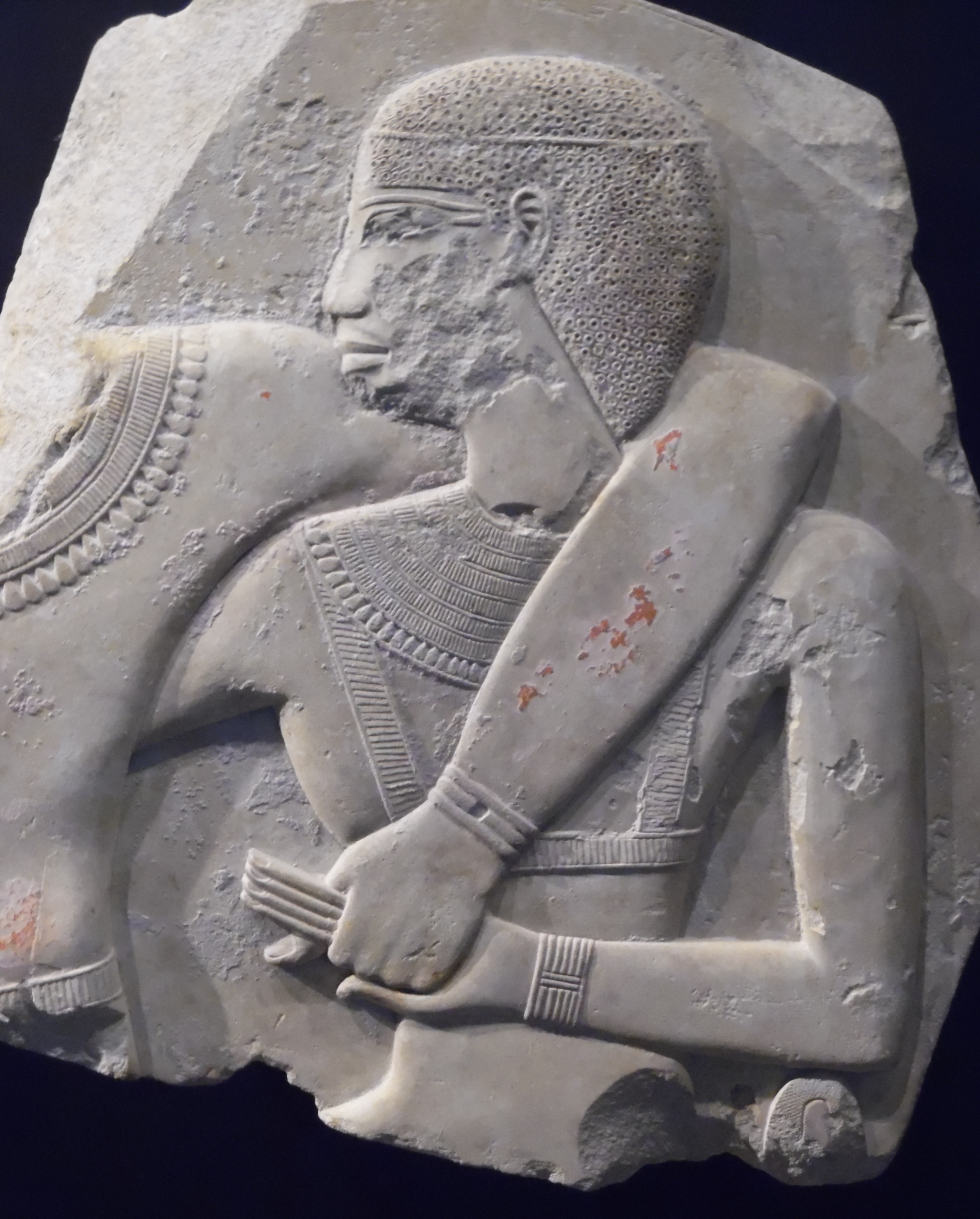 Relief depicting Kemsit, one of the queens of pharaoh Mentuhotep II. Limestone, from the mortuary temple of Mentuhotep II at Deir el-Bahari, 11th Dynasty, Middle Kingdom (c.2030 BCE) Munich, Staatliches Museum Ägyptischer Kunst.